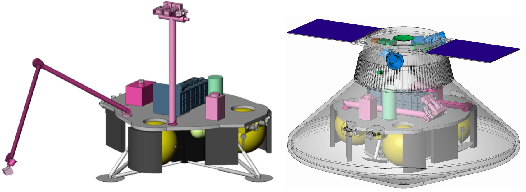 The Mars Geyser Hopper is a design reference mission (DRM) for a Discovery-class spacecraft using Advanced Stirling Radioisotope Generator (ASRG) power source. The Geyser Hopper is a conceptual design mission concept that will investigate the springtime carbon-dioxide geysers found in regions around the south pole of Mars, based on the Mars Phoenix heritage systems and approach, designed to last over a one-year stay on the South Pole.